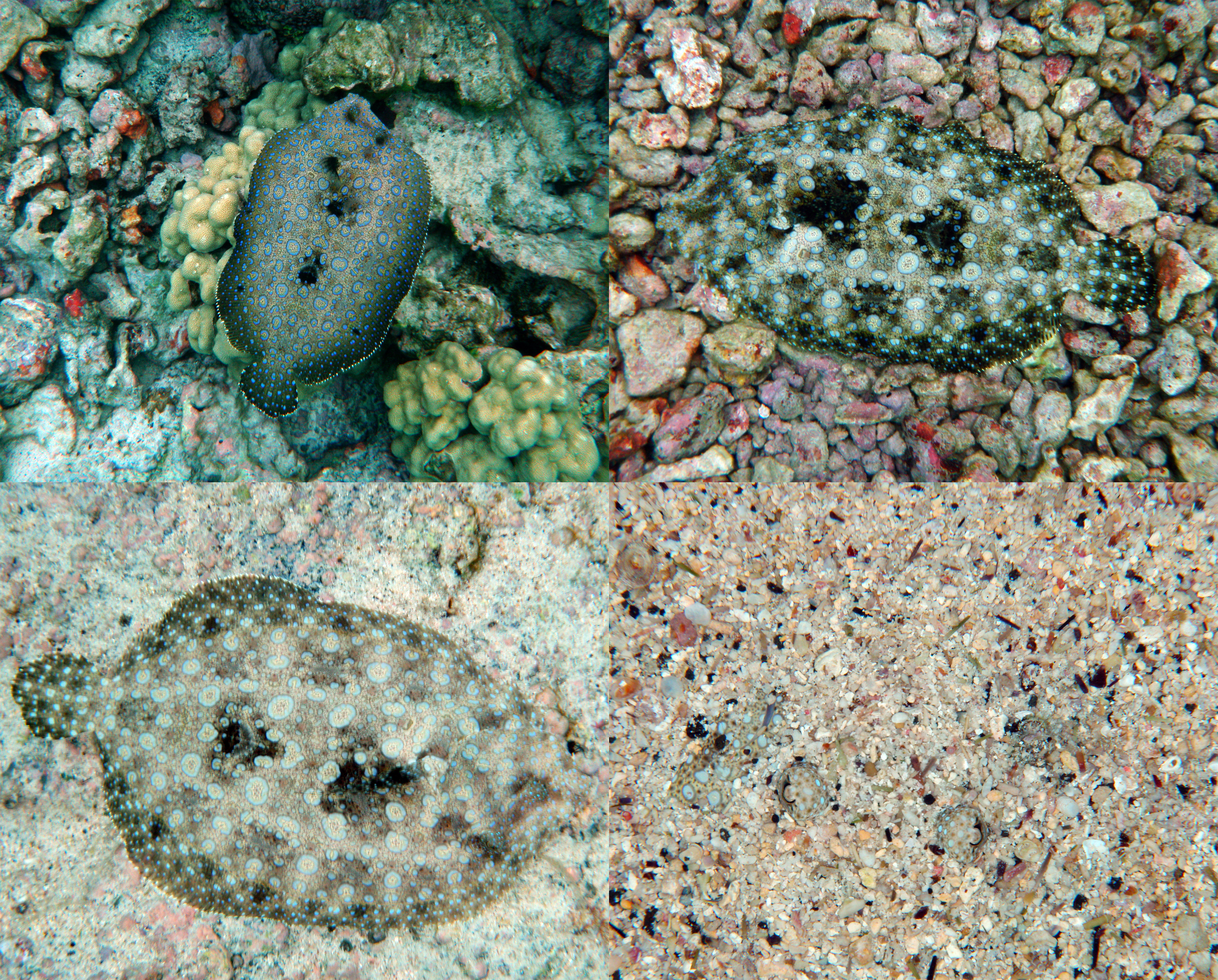 Peacock Flounder, Bothus mancus is changing colors depending on the colors of it surroundings. All frames are of the same fish taken few minutes apart. He changed colors to match his surroundings as I watched. In the last frame he buried himself in the sand. Almost nothing, but the eyes are seen.